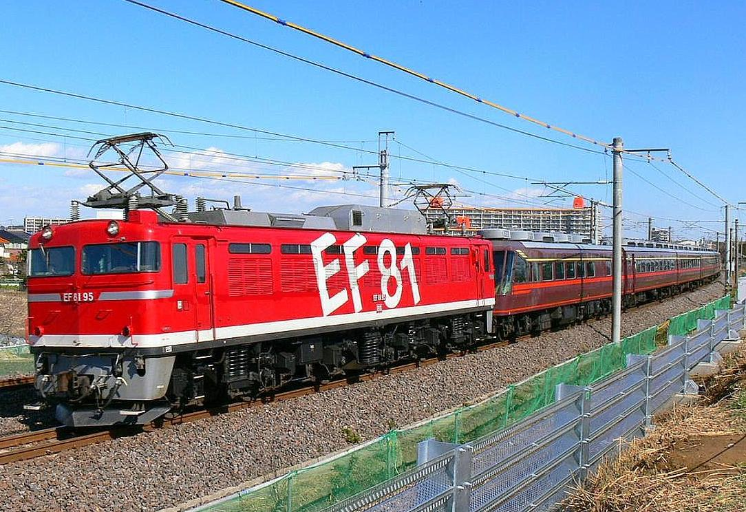 JR East Class EF81 electric locomotive EF81 95 in "Super Express Rainbow" livery